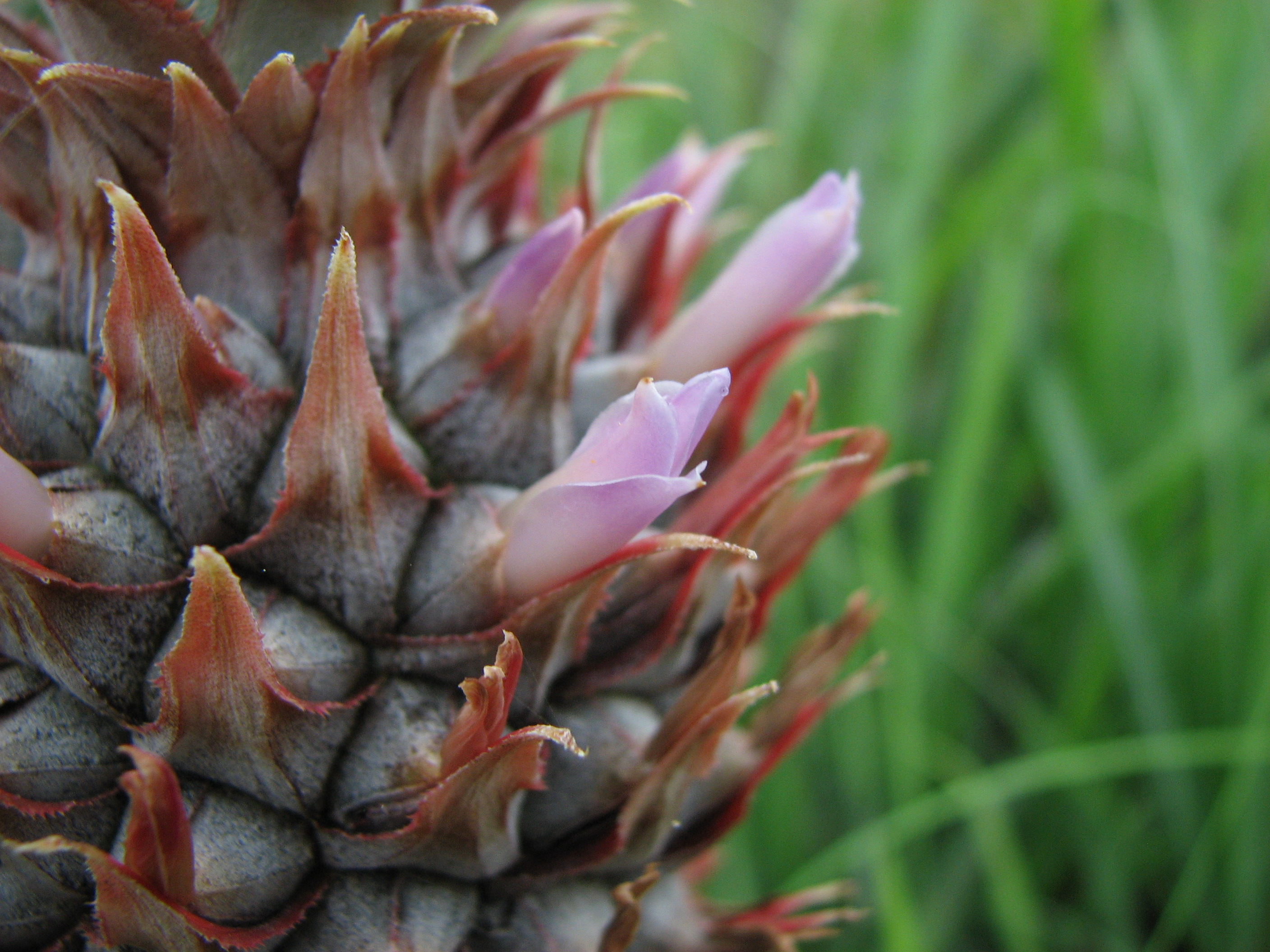 flower of pineapple (Ananas comosus) at Iriomote is. Okinawa, Japan